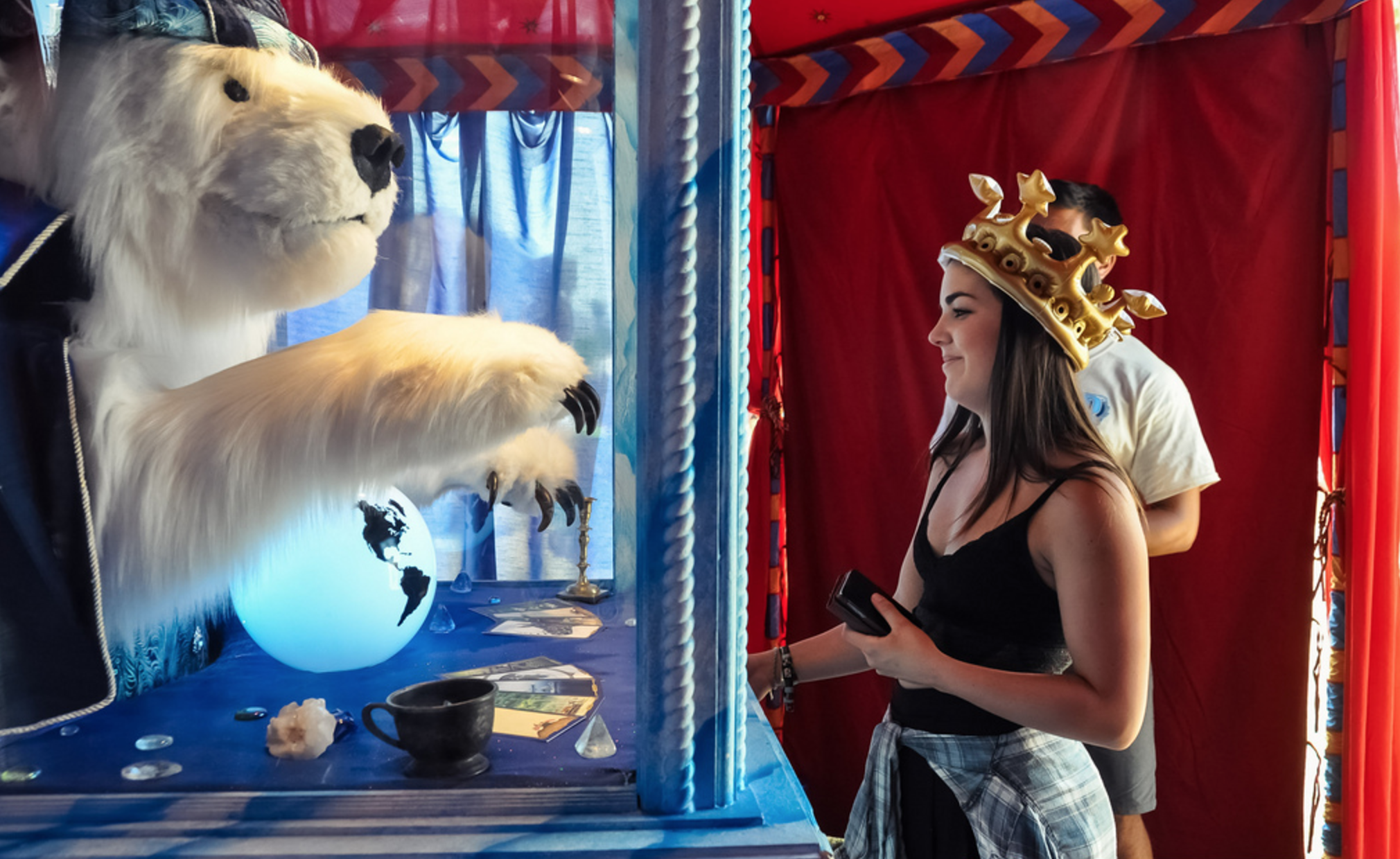 Poltar The Great bestowing its wisdom at Coachella Music & Arts Festival 2015